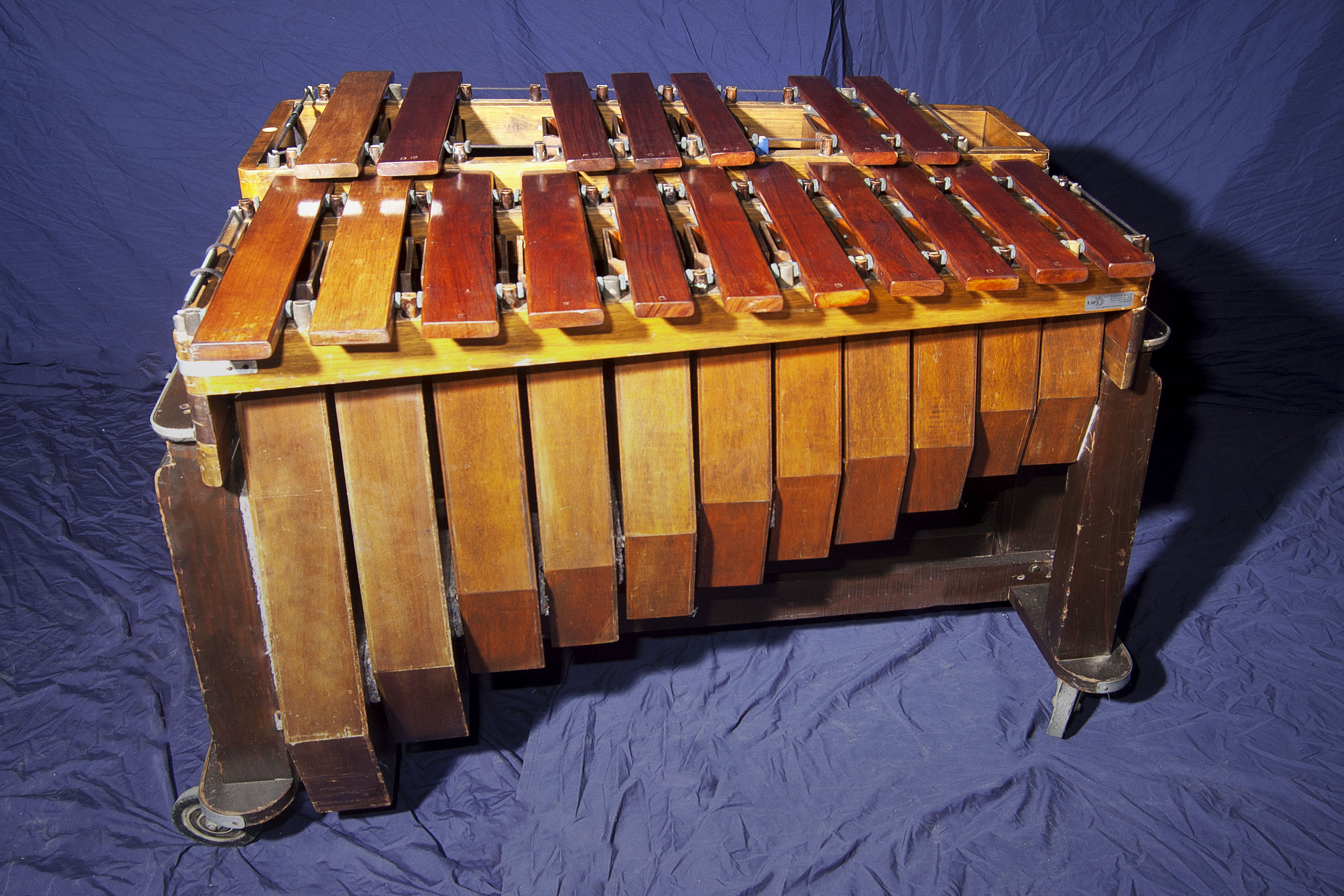 Bass Marimba from Emil Richards Collection Range C2-F3